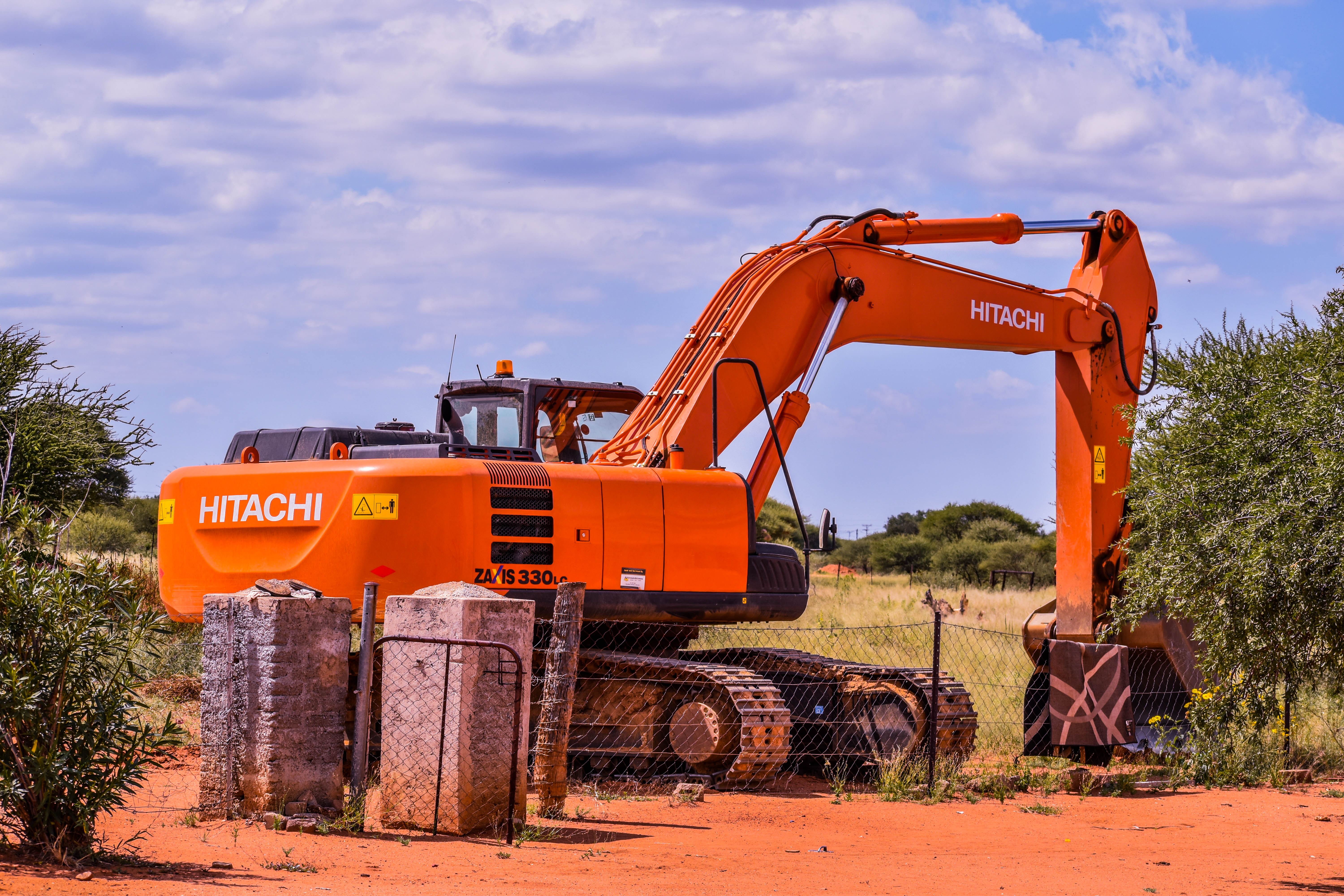 This is an image with the theme "Africa on the Move or Transport" from: Botswana